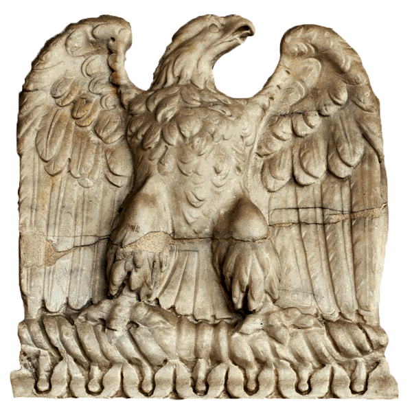 Cutted Imperial Aquila